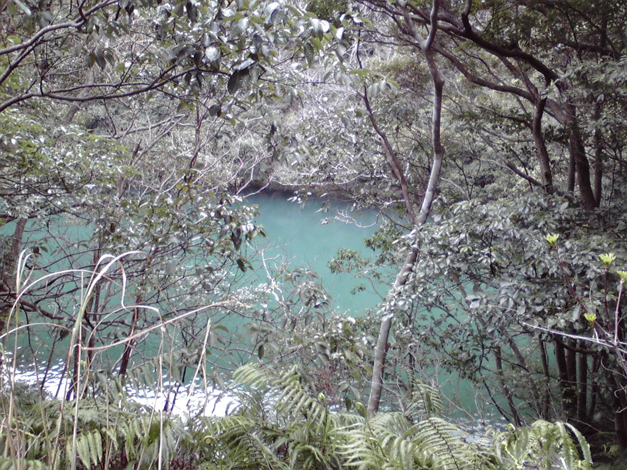 This is a pond in Shima,Mie,Japan.